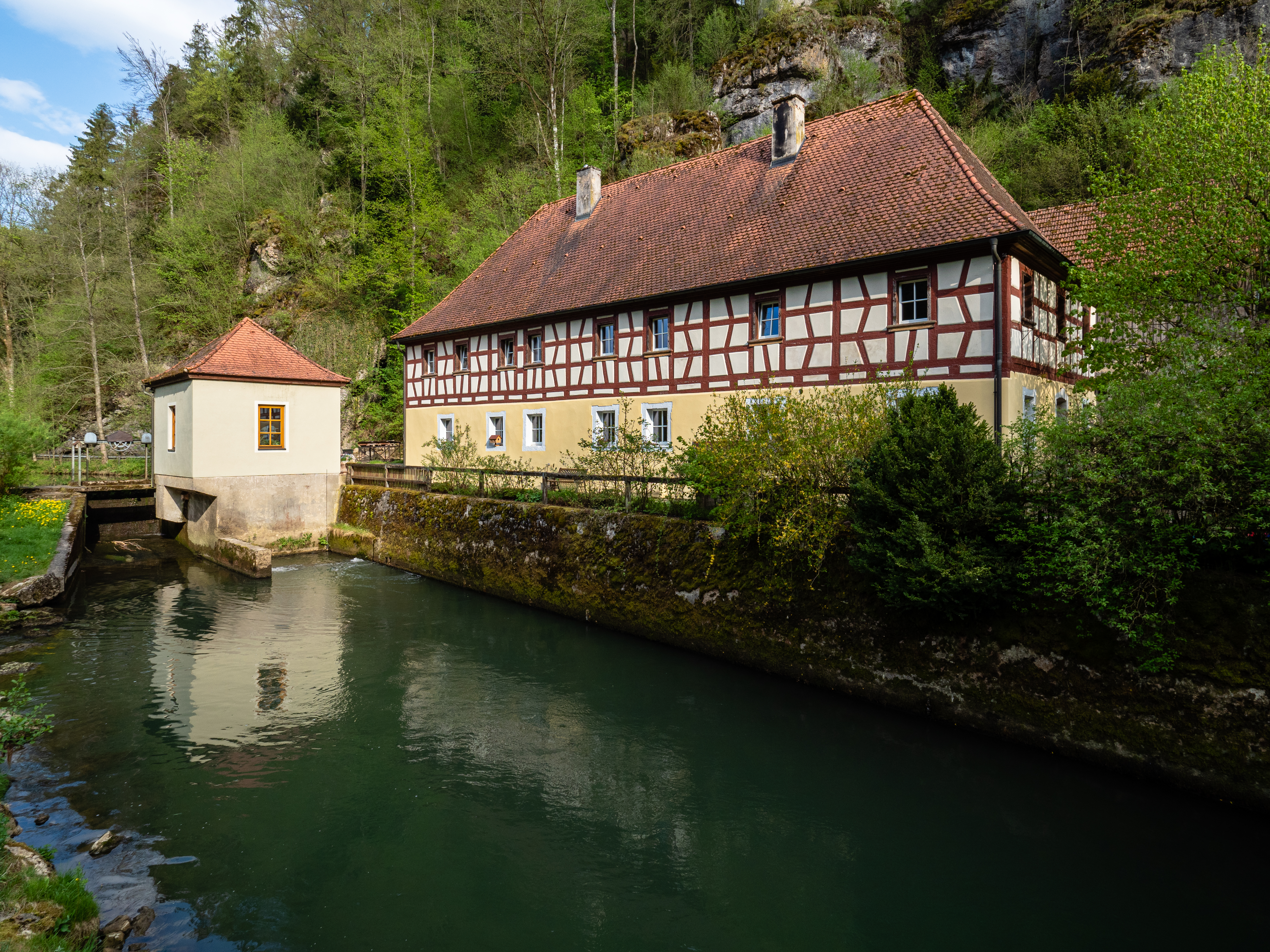 Mill near Rabeneck Castle above the Wiesent valley